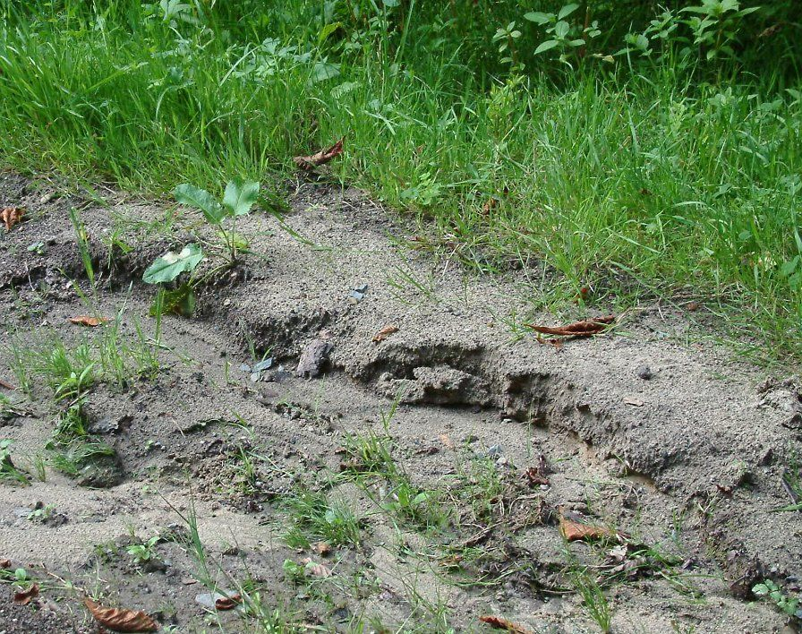 Terrace deposit observed on a small stream.